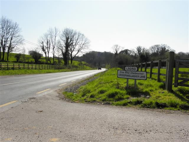 The R205 national secondary road at Crossmakellagher townland, Templeport parish, County Cavan, Ireland, looking SSW.